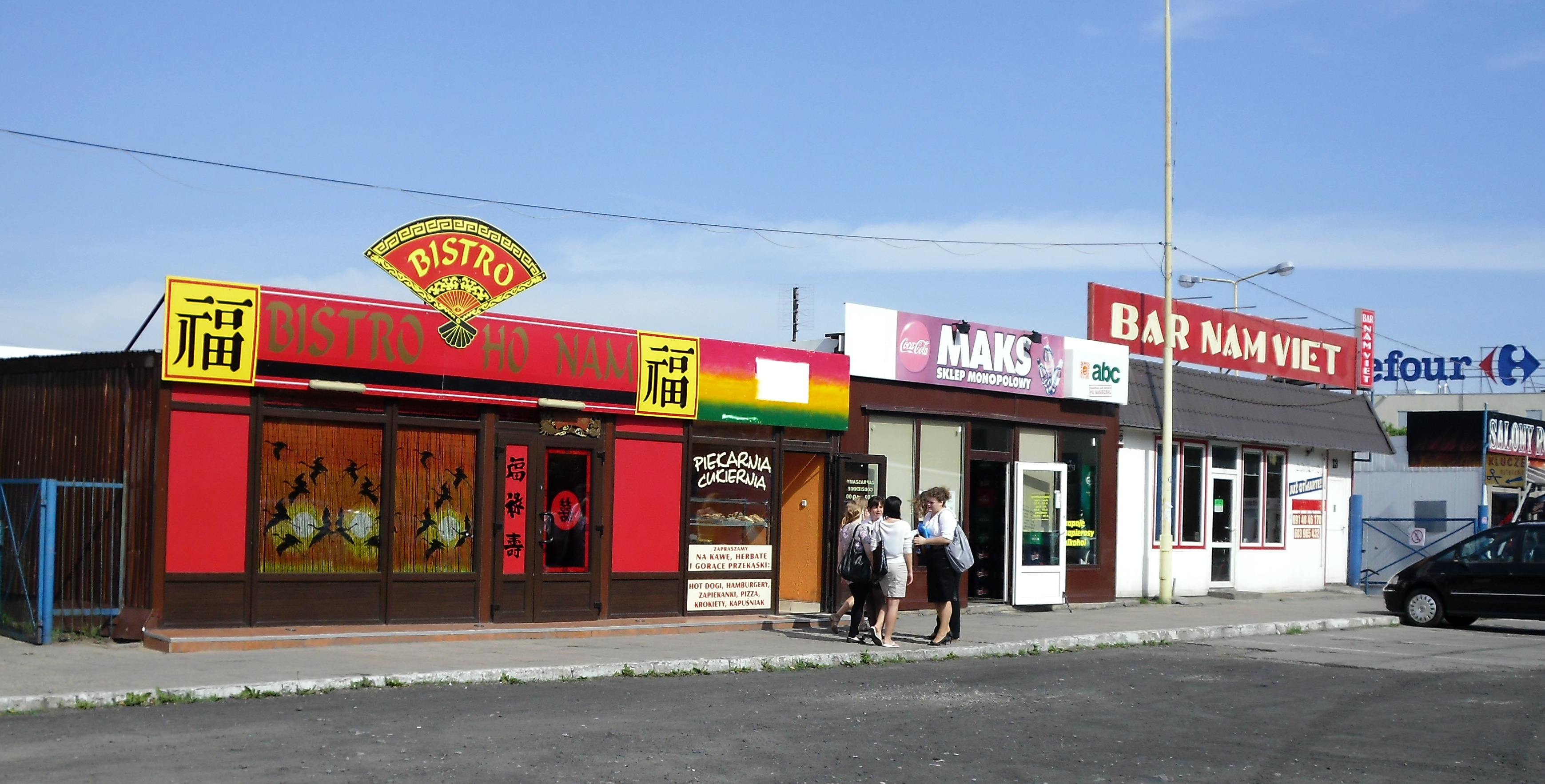 Vietnamese restaurants on Aleja Bohaterów Warszawy, Szczecin, Poland.